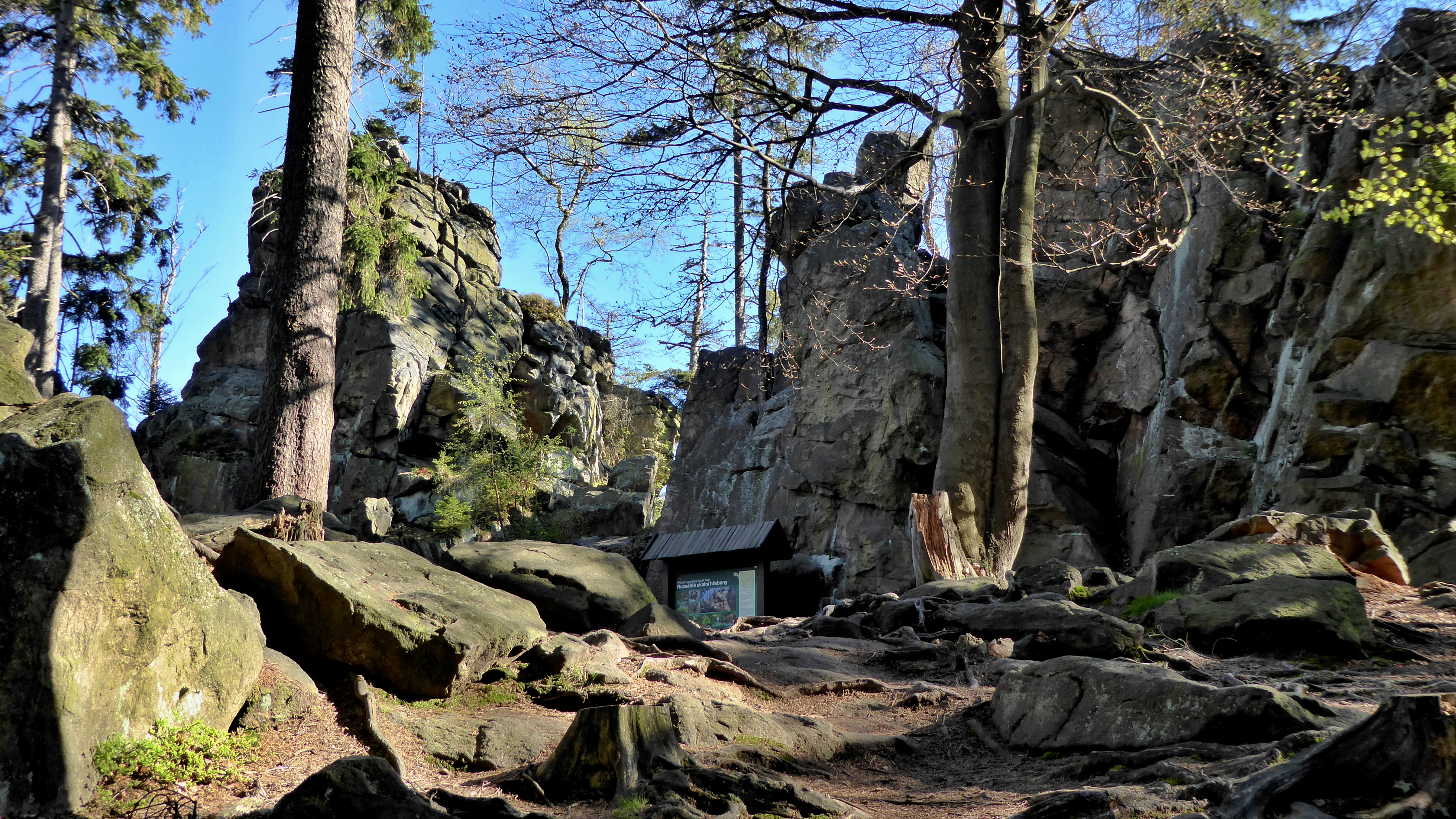 "Devítiskalská" Highlands is landscape area (orography unit) and geomorphological district in the northwestern part "Žďárské" Hills. It is part of the "Hornosvratecká" Highlands in the regional division of the shape of the Earth's surface (georelief) of the Czech Republic. A view of the rock system below the summit "Nine Rocks" (836.3 m above sea level). Natural monument on the highest ridge of rugged highlands. Photo location: Czechia, Vysočina Region, villages Křižánky, "Devítiskalská" Highlands, a rock area of the natural monument Nine rocks.